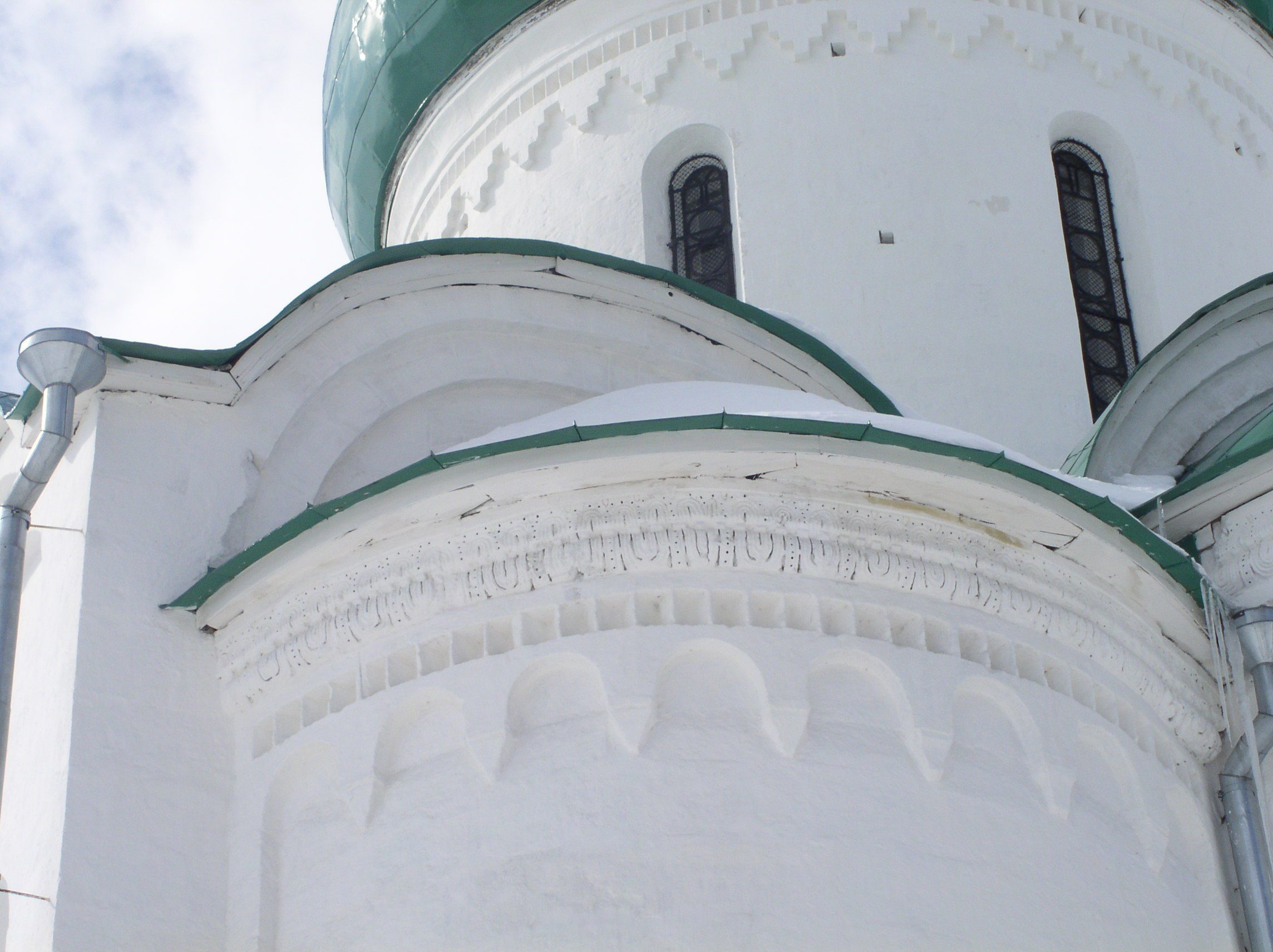 Cathedral of the Transfiguration of the Saviour (detail) in Pereslavl-Zalessky, Russia